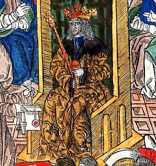 Alexander I of Poland in Senate